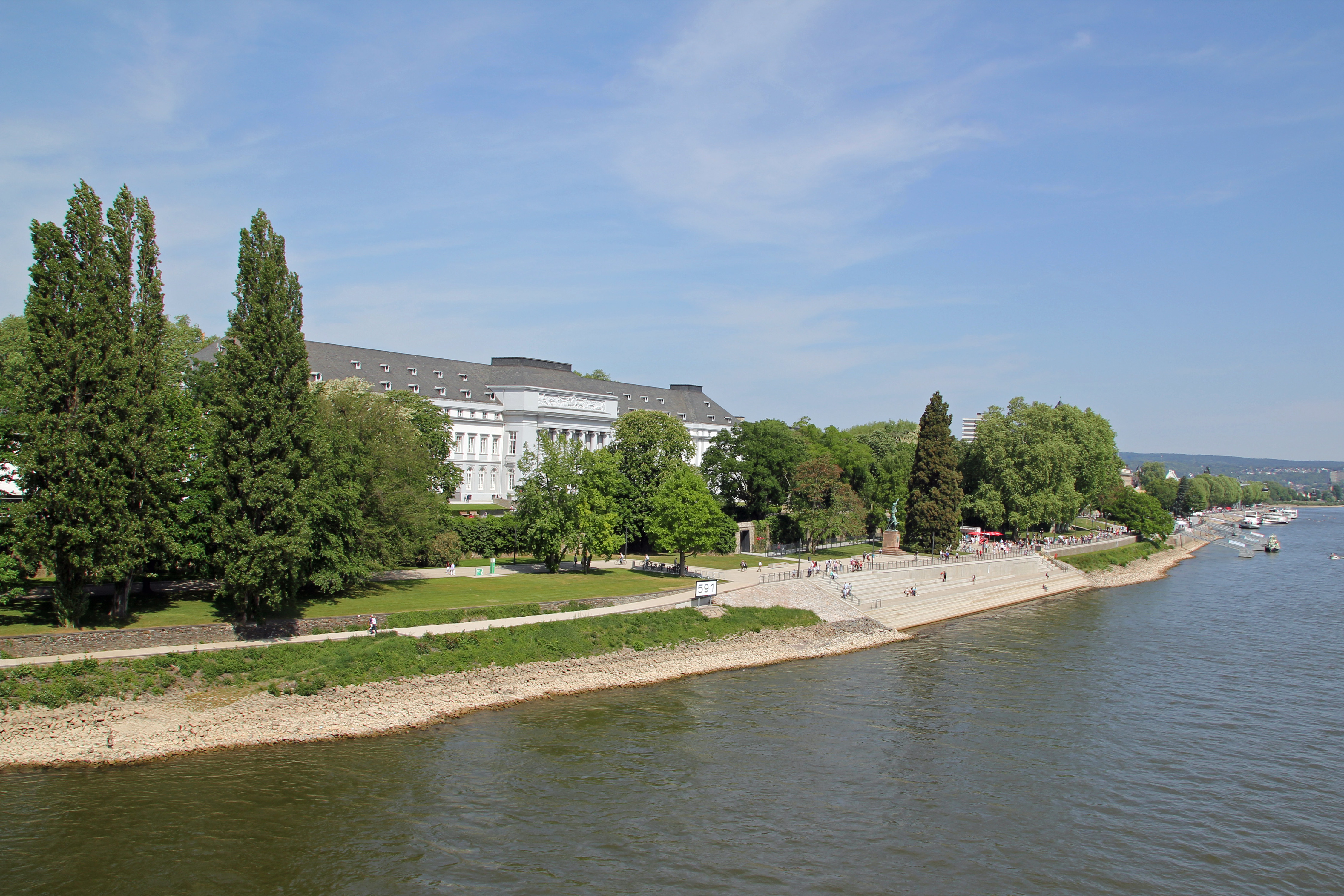 Rhine park in Koblenz